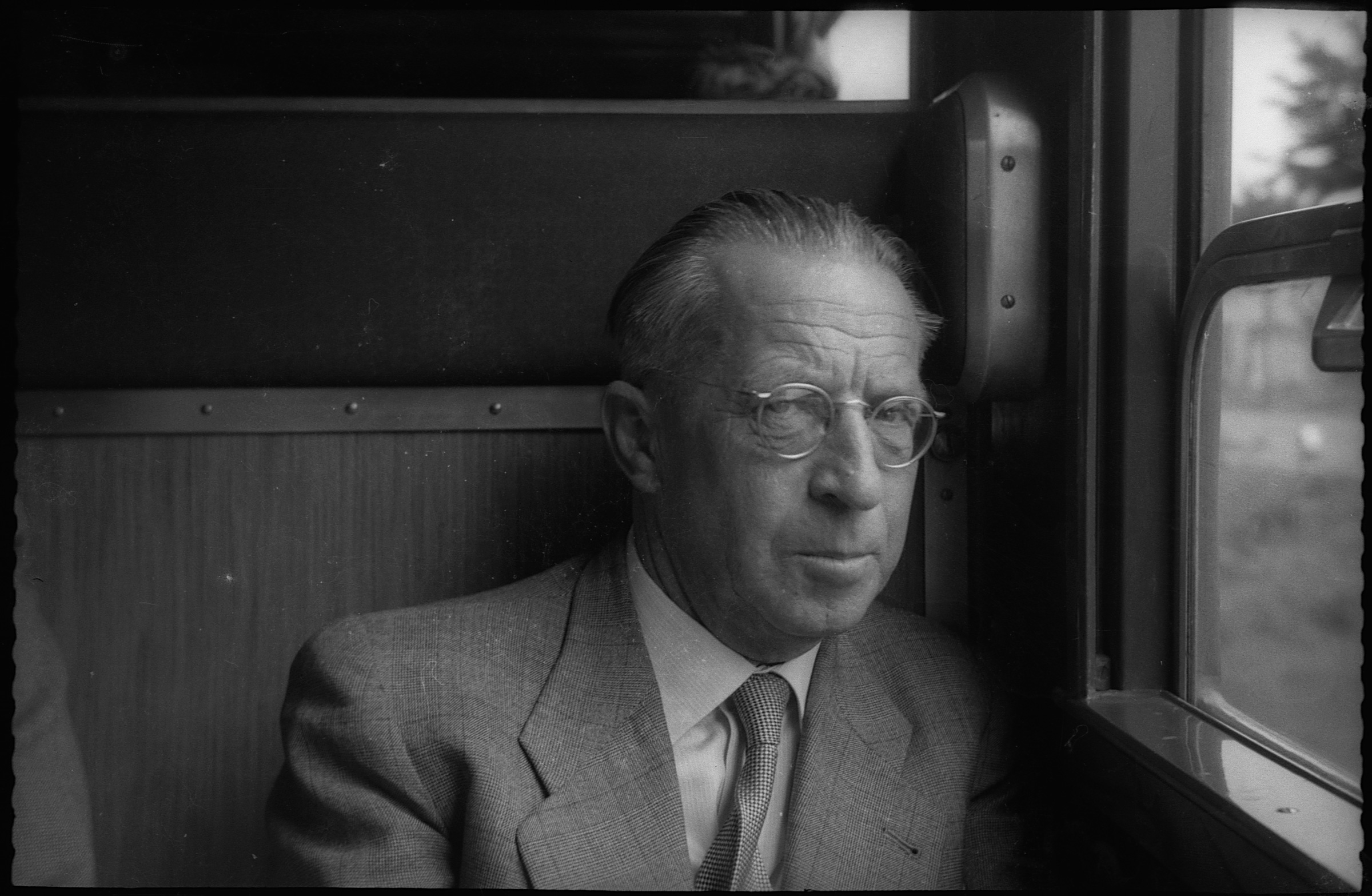 Josef Hofinger